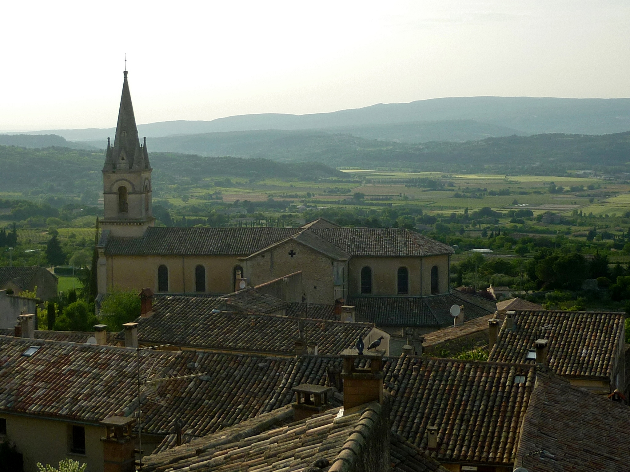 Bonnieux in the Luberon